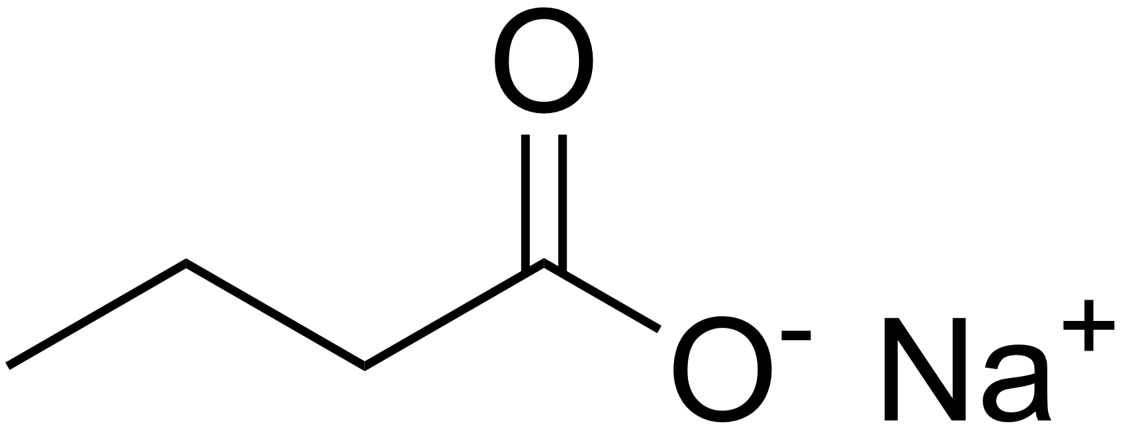 Chemical structure of sodium butyrate (sodium butanoate)